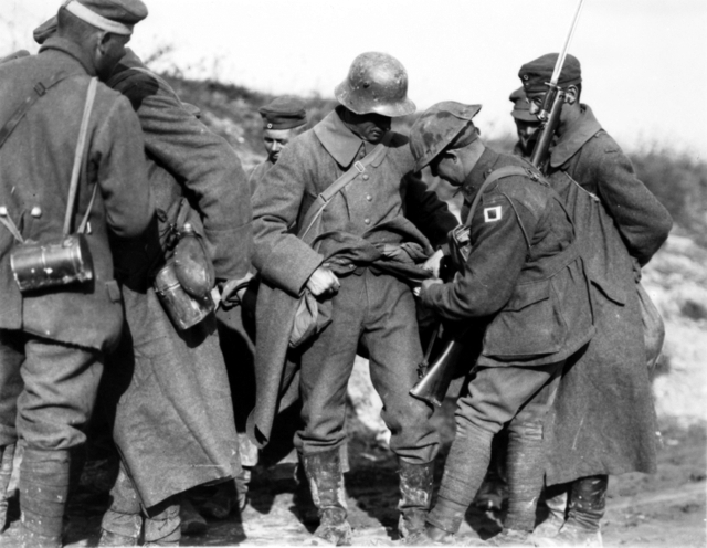 Australian solders searching German prisoners of war for "souvenirs" following their capture during fighting around an outpost of the Hindenburg Line near Hargicourt in France